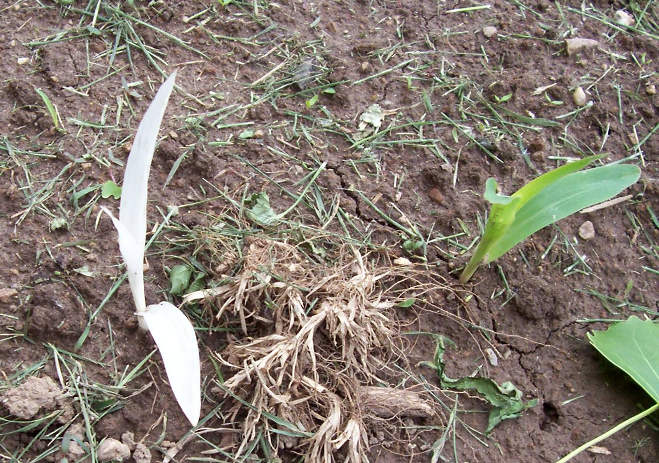 An albino popcorn plant (left) beside a normal popcorn plant (right). A severe form of chlorosis. They were planted at the same time. There were 10 albino plants that grew in 3 - 25 foot long rows, and they have all died. A picture of a group of cobs from these three rows of popcorn plants (excluding the white plant, of course) is PopcornCobs2007.jpg, and a single cob from that group is PopcornPartiallyShelled2007.jpg.